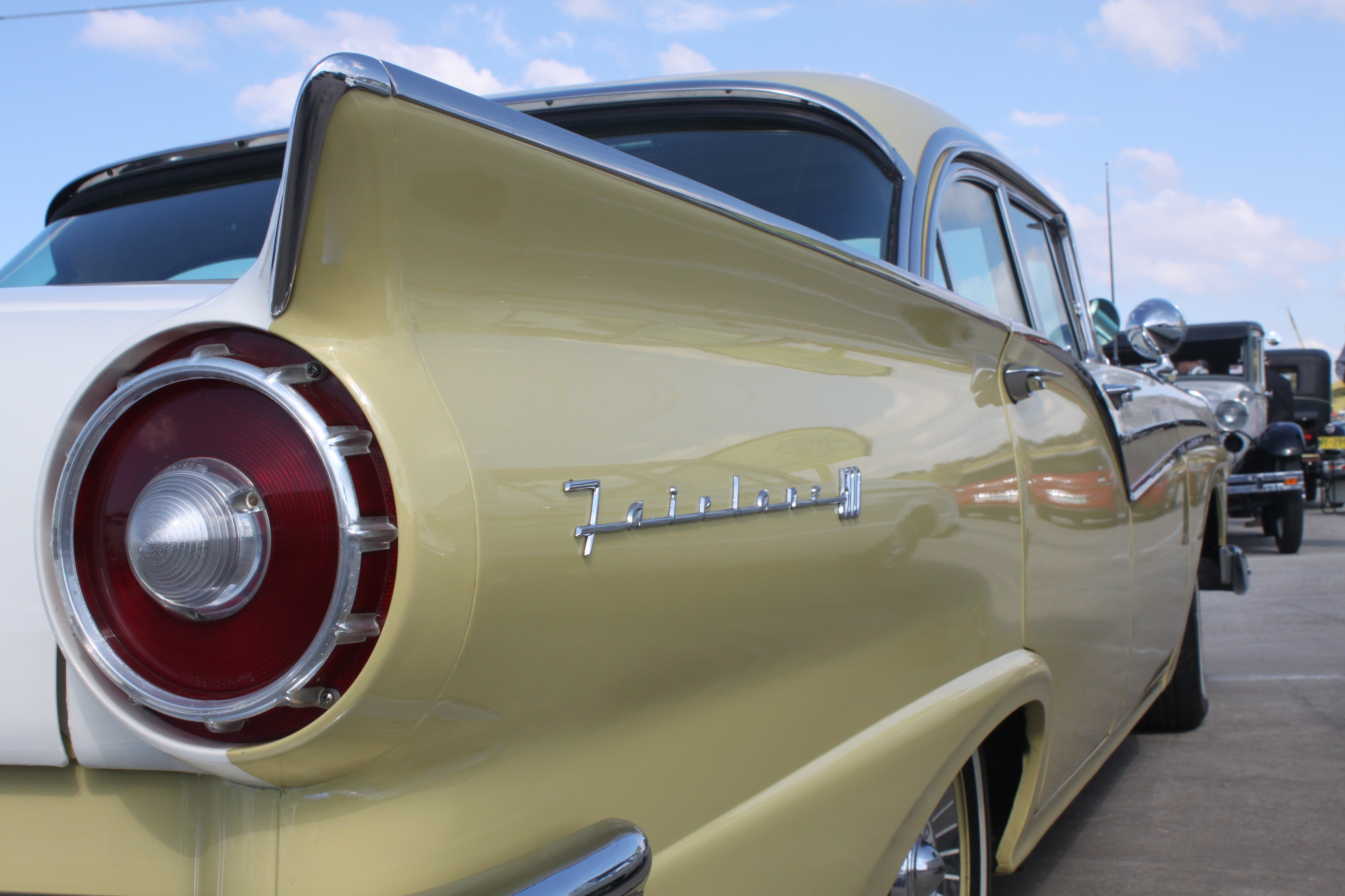 Shannon's Classic, Eastern Creek, NSW August 2015